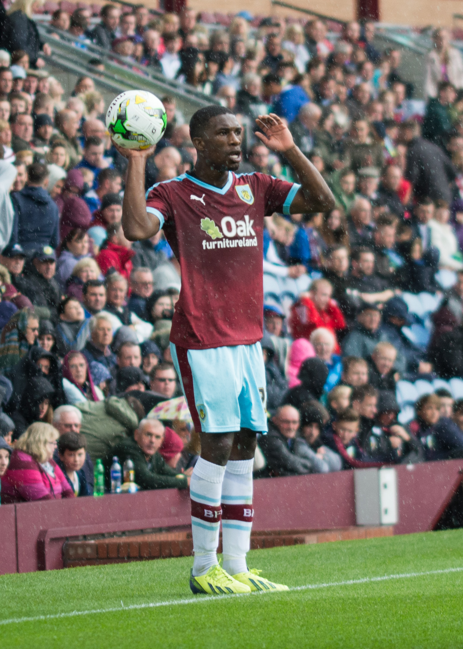 Tendayi Darikwa takes a throw-in for Burnley.